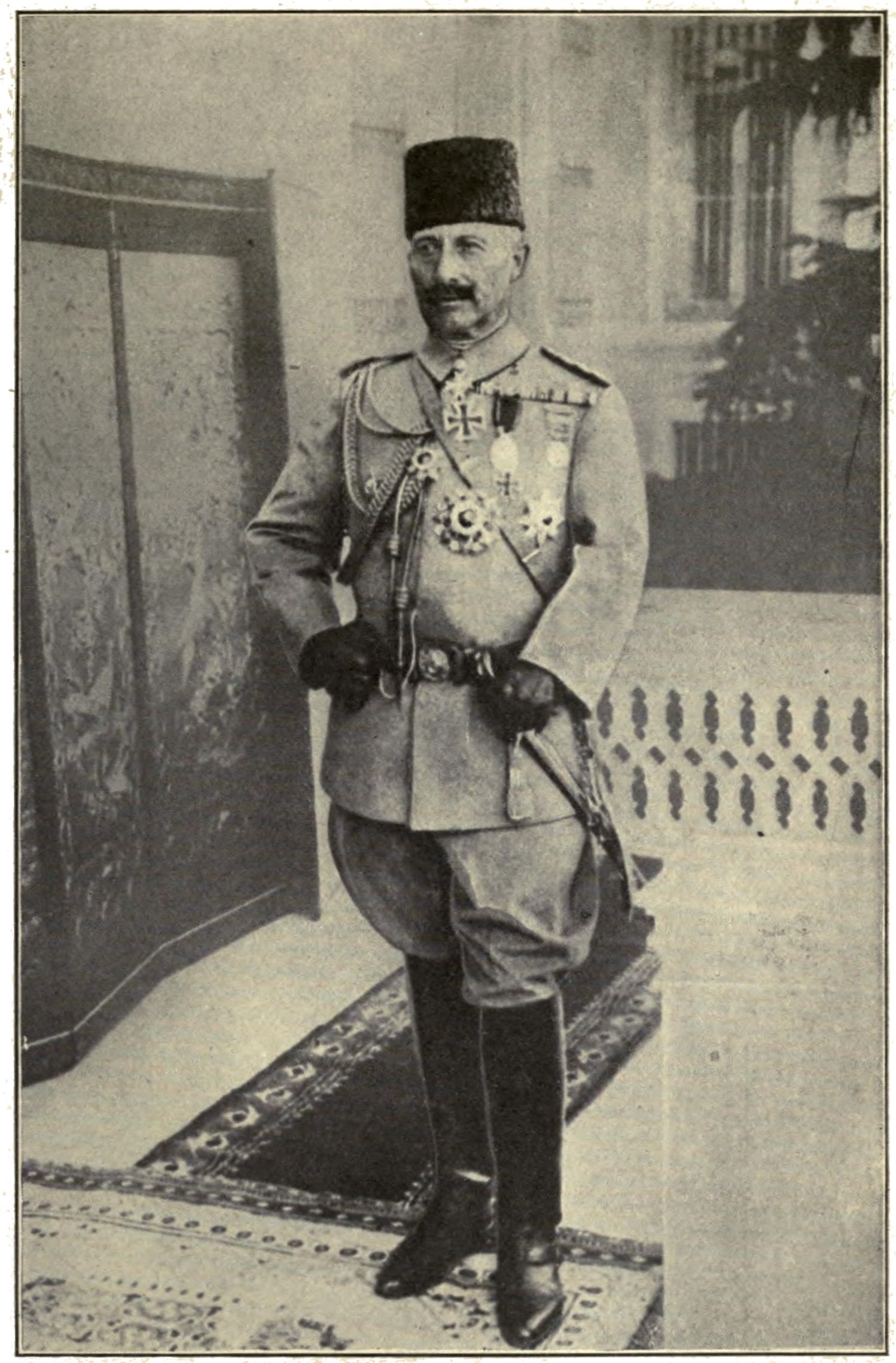 Kaiser Wilhelm II in the uniform of a Turkish Field Marshal